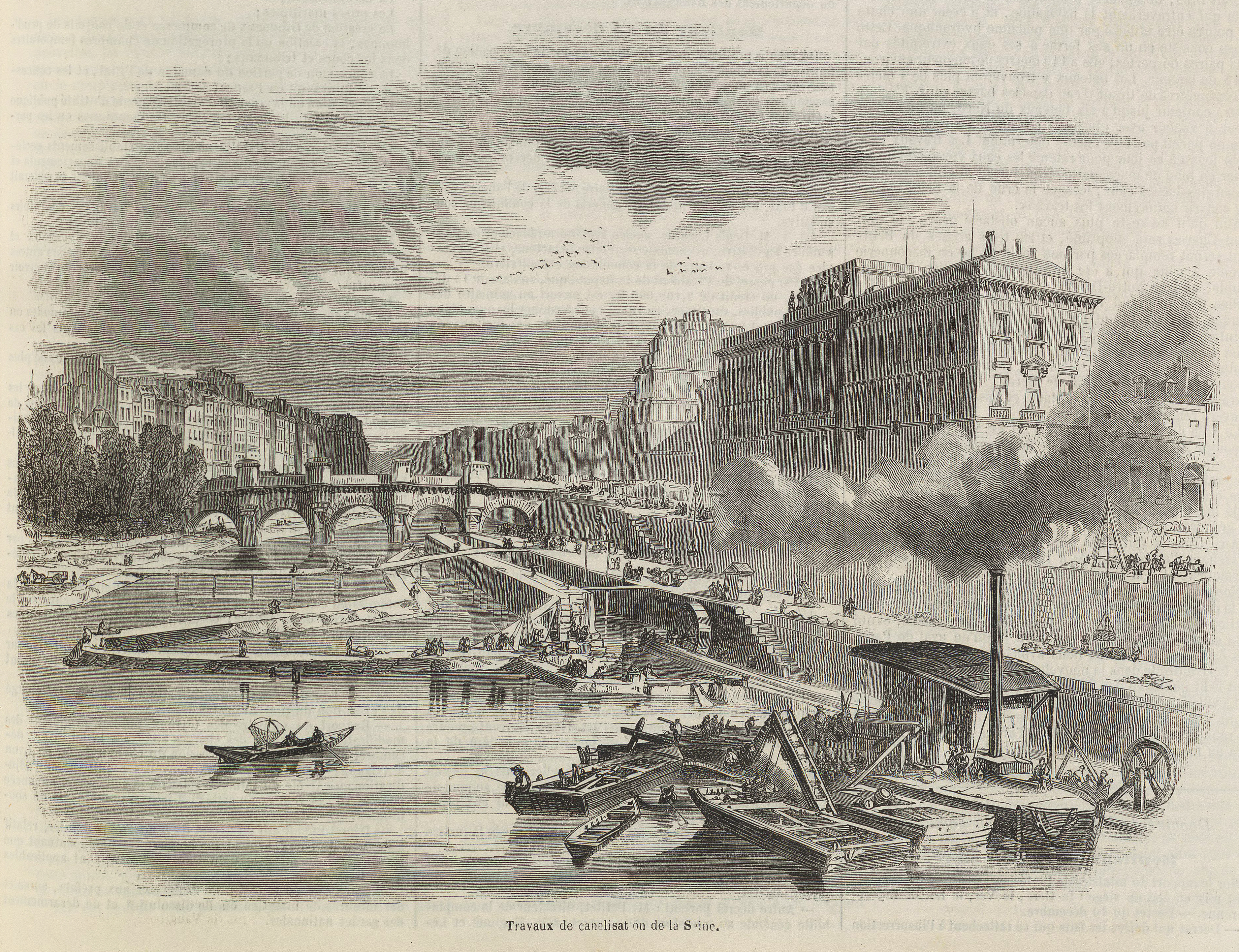 This print shows the work that was being done around the Seine, in order to allow for better navigation.